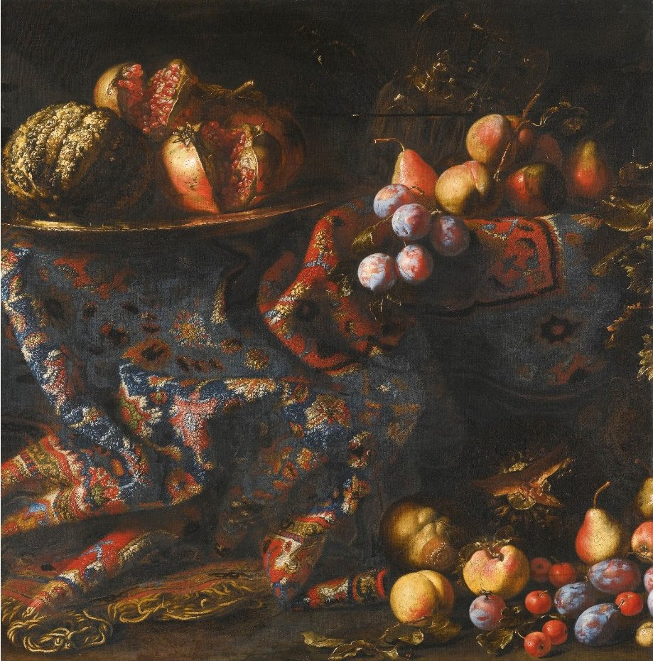 Still Life of Pomegranates, Peaches, Apples and other Fruit Displayed on a Draped Carpet by Francesco Noletti, called il Maltese, oil on canvas, 97.8 by 96.5 cm